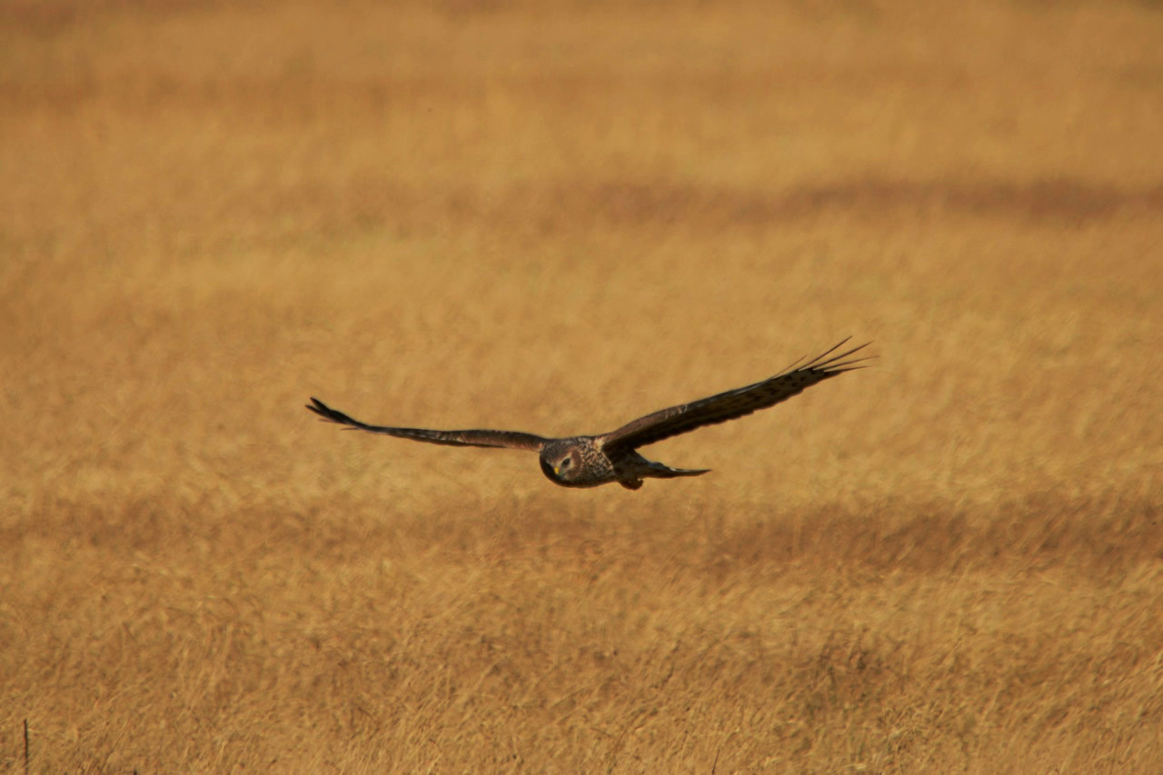 Hen Harrier (Circus cyaneus) female, Neusiedl am See, Austria.